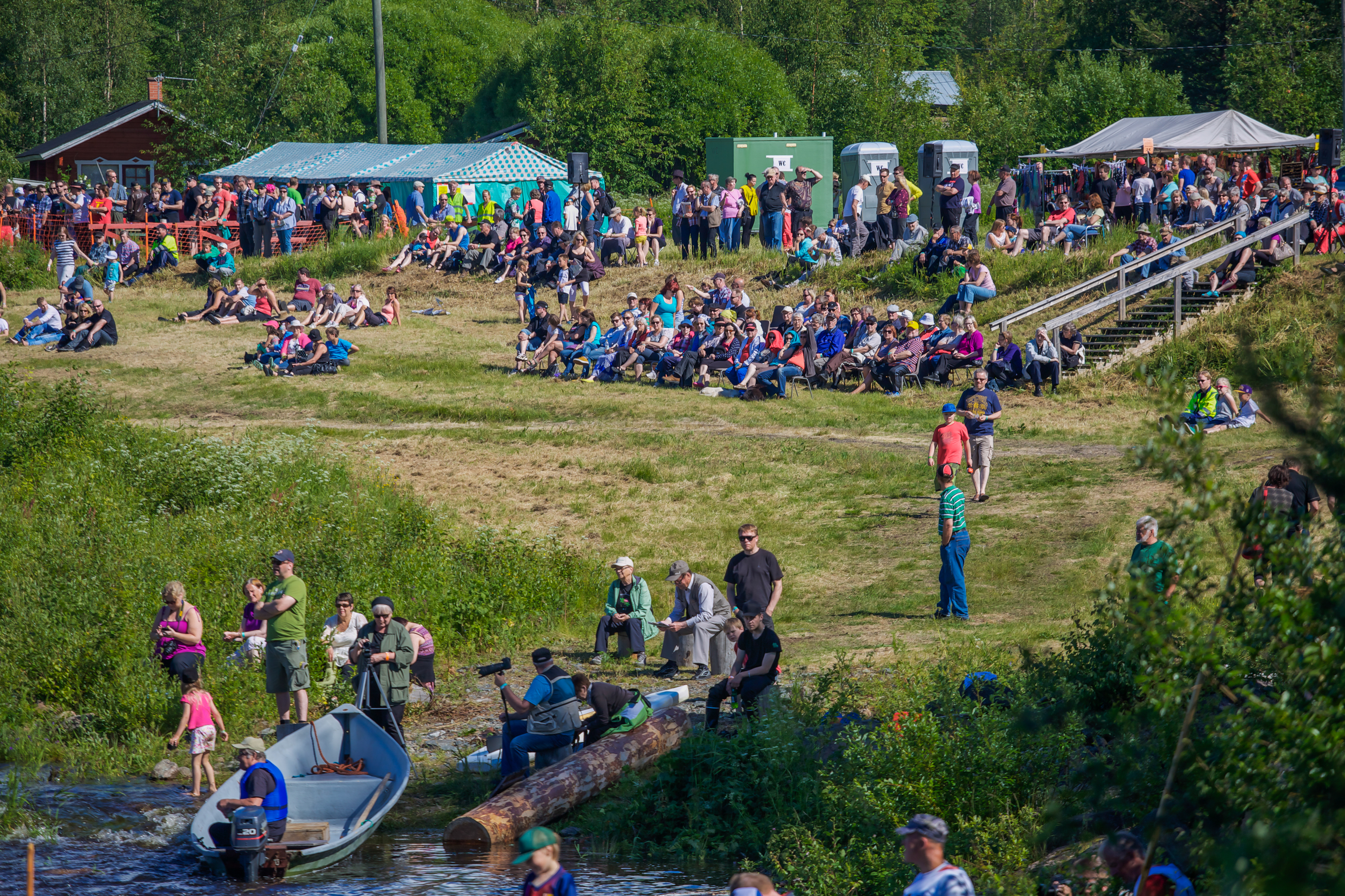 Iin tukkilaiskisojen yleisöä